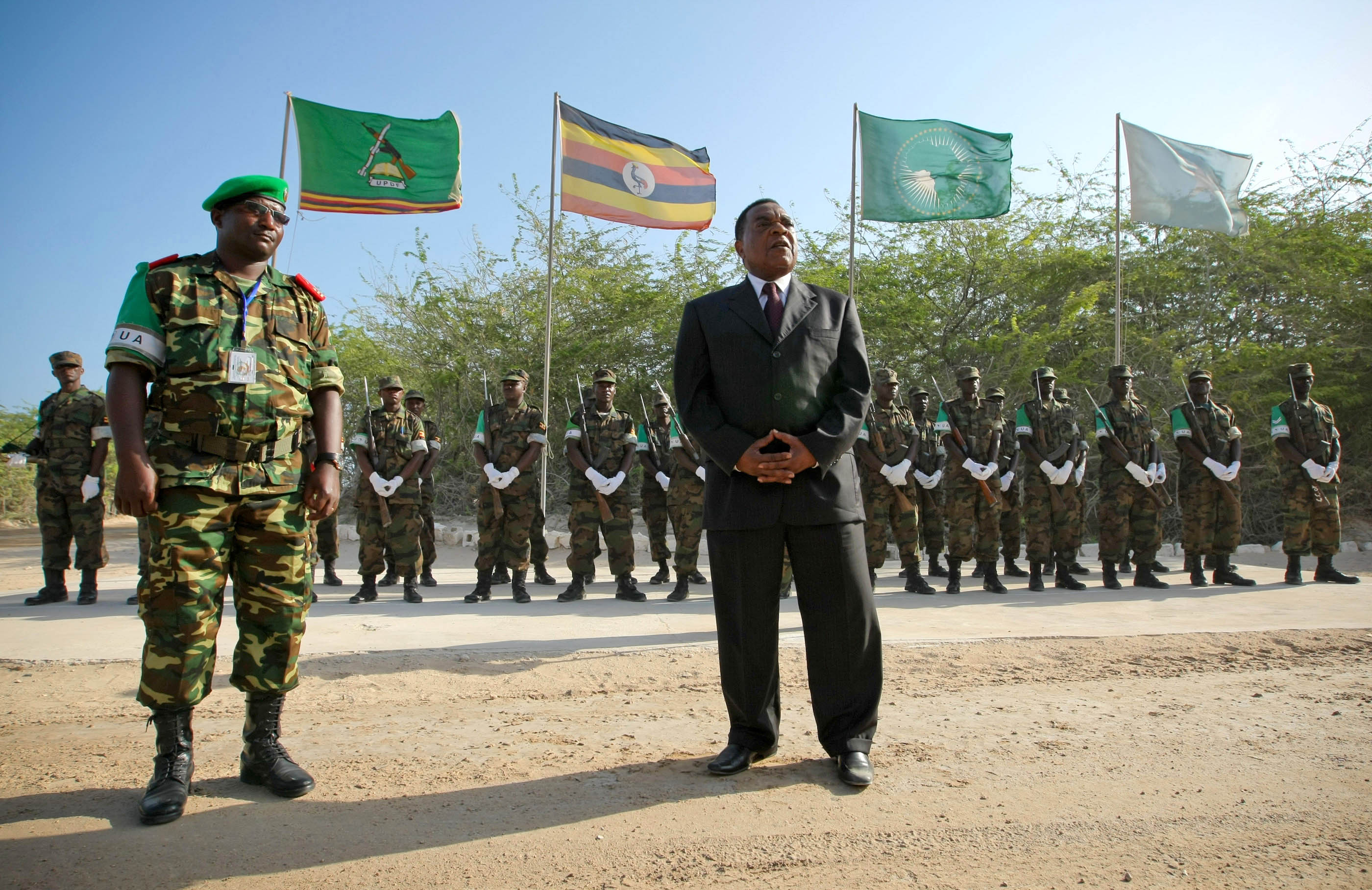 Augustine Mahiga (right) Special Representative of the Secretary General for the United Nations Political Office in Somalia (UNPOS) stands with the Deputy Force Commander of the African Union Mission in Somalia (AMISOM), Brigadier-General Audace Nduwumunsi, while addressing troops and officers at their headquarters 24 January following his arrival in the Somali capital. Mahiga and UNPOS have moved permanently to the Somali capital the first time the UN has a full-time in-country presence in Somalia for 17 years - from neighbouring Kenya following significant security improvements within Mogadishu over the last 6 months. Upon his arrival Mahiga said: "Without the incredible efforts and sacrifice of the troops from Somalia and other African countries, we would not be here today," adding: "I sincerely hope that the arrival of the UN Political Office will mark the start of renewed hope for the future of Somalia, we have much to do and we are eager to get straight to work". AU-UN IST PHOTO / STUART PRICE.